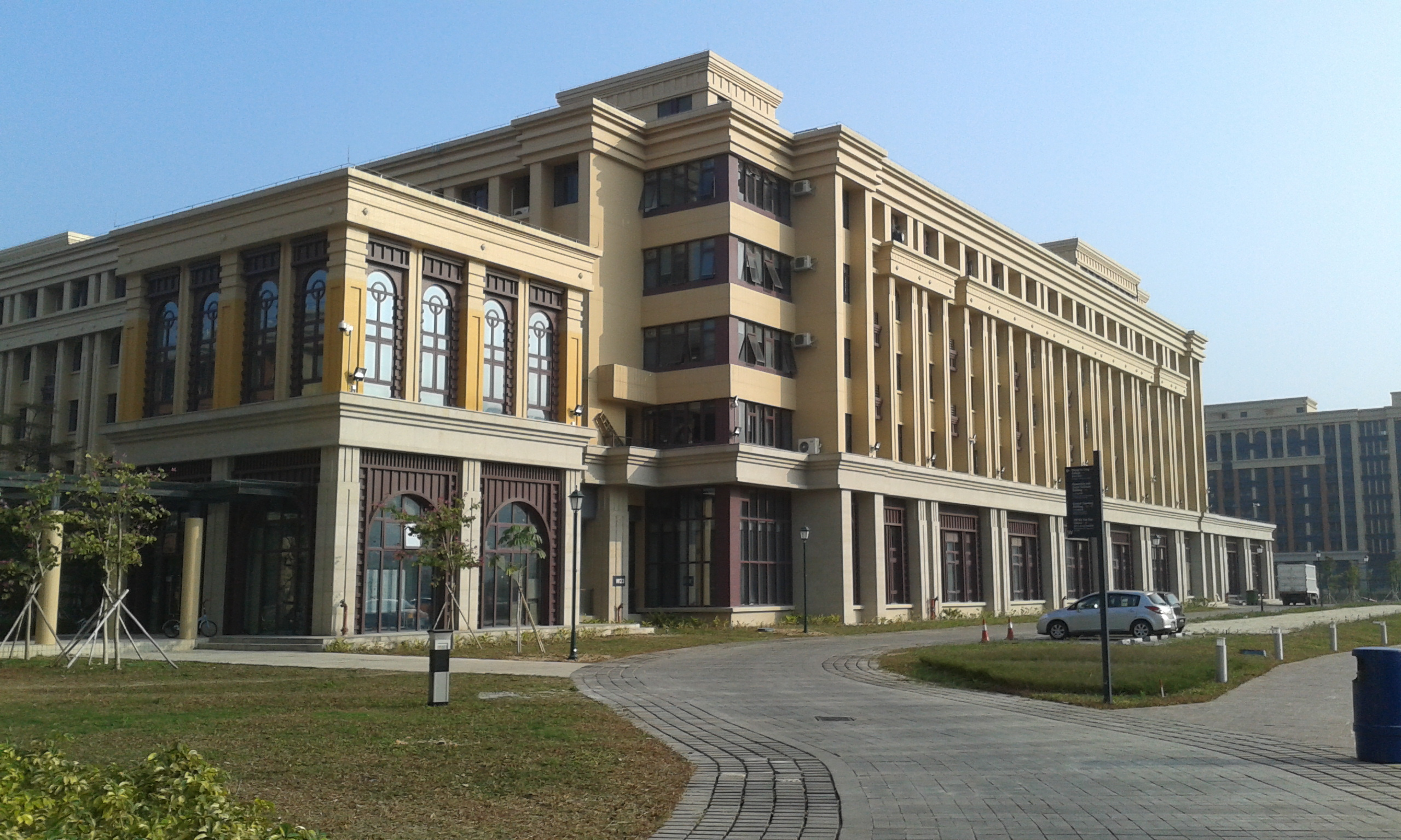 UM in Hengqin